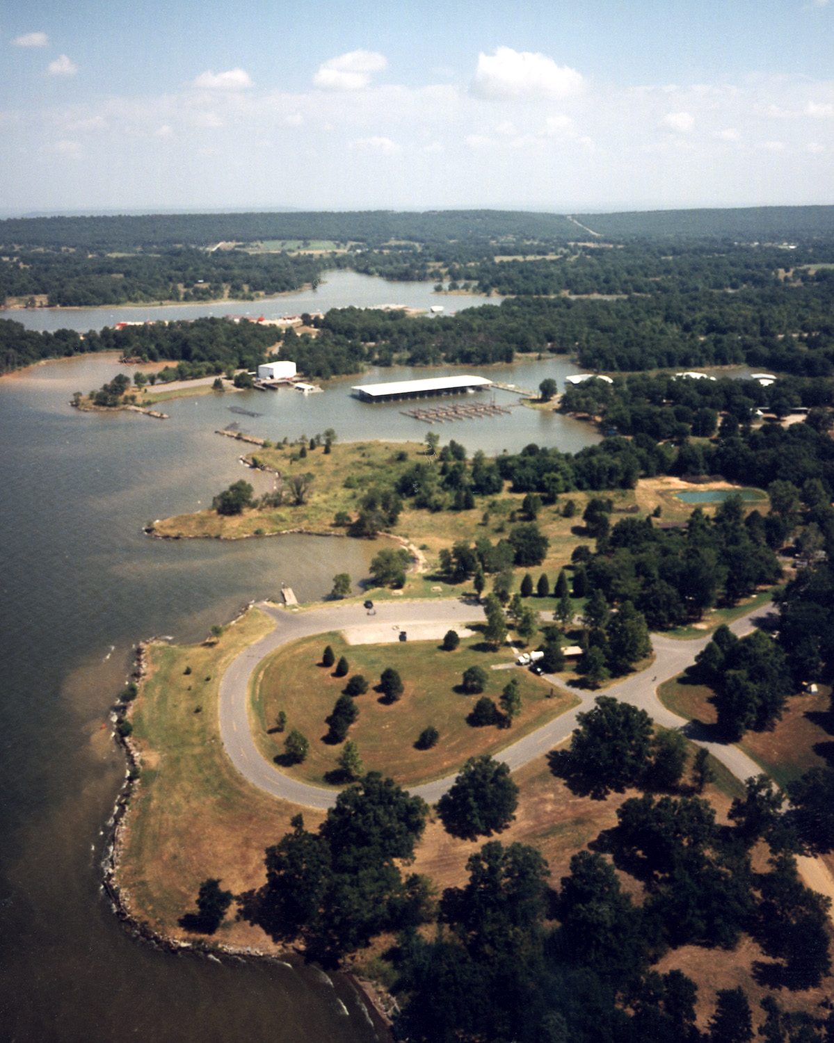 Aerial view of part of Robert S. Kerr Reservoir on the Arkansas River in Oklahoma, USA. The reservoir is impounded on the river by the Robert S. Kerr Lock and Dam, which are part of the McClellan-Kerr Arkansas River Navigation System, which provides for barge navigation on the Arkansas River and some of its tributaries. The U.S. Army Corps of Engineers maintains the locks and navigation system. The reservoir touches the Oklahoma counties of Sequoyah, Le Flore, Haskell, Muskogee, and forms the border between the counties. The exact location of this picture on the reservoir is not identified. However, comparison to satellite photographs reveals that the location of this photograph is on the north side of the reservoir in Sequoyah County, approximately 2.8 miles northwest of the lock and dam. Coordinates: 35°21′53.91″N 94°49′30.21″W / 35.364975°N 94.8250583°W